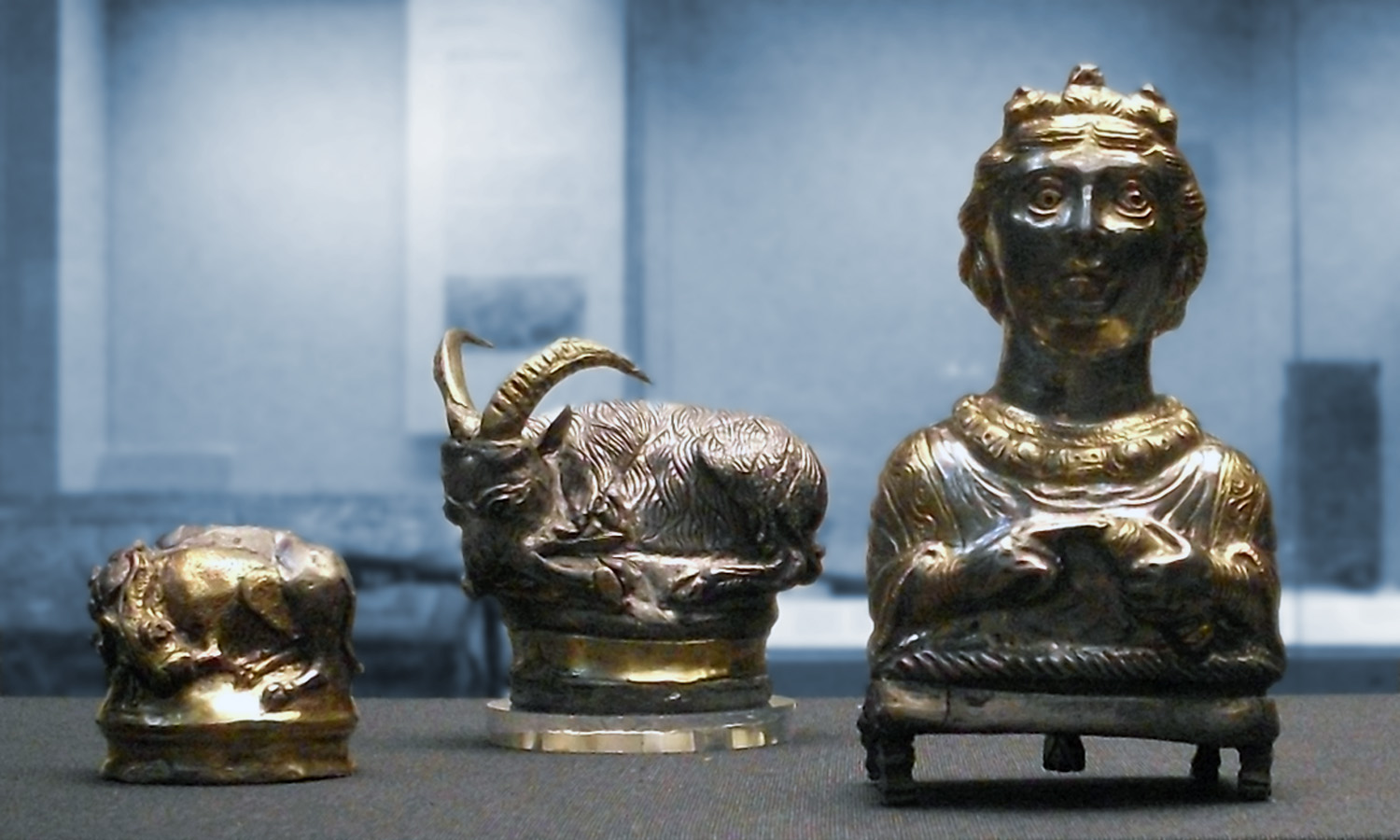 Three silver-gilt Roman piperatoria or pepper pots from the Hoxne Hoard on display at the British Museum.